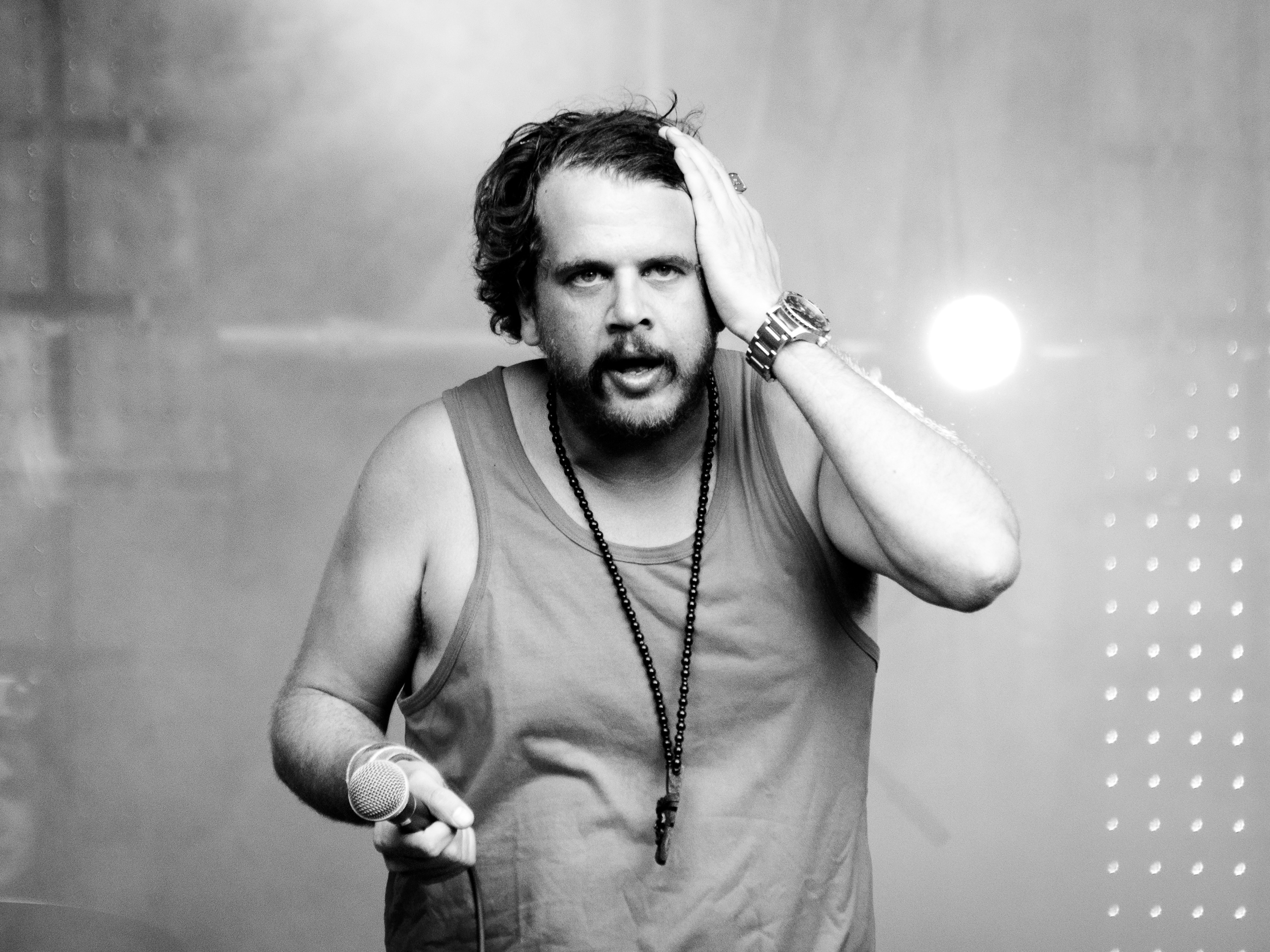 Koninginnedagfestival (Queensday festival) at the Effenaar in Eindhoven, NL on April 30th, 2011.